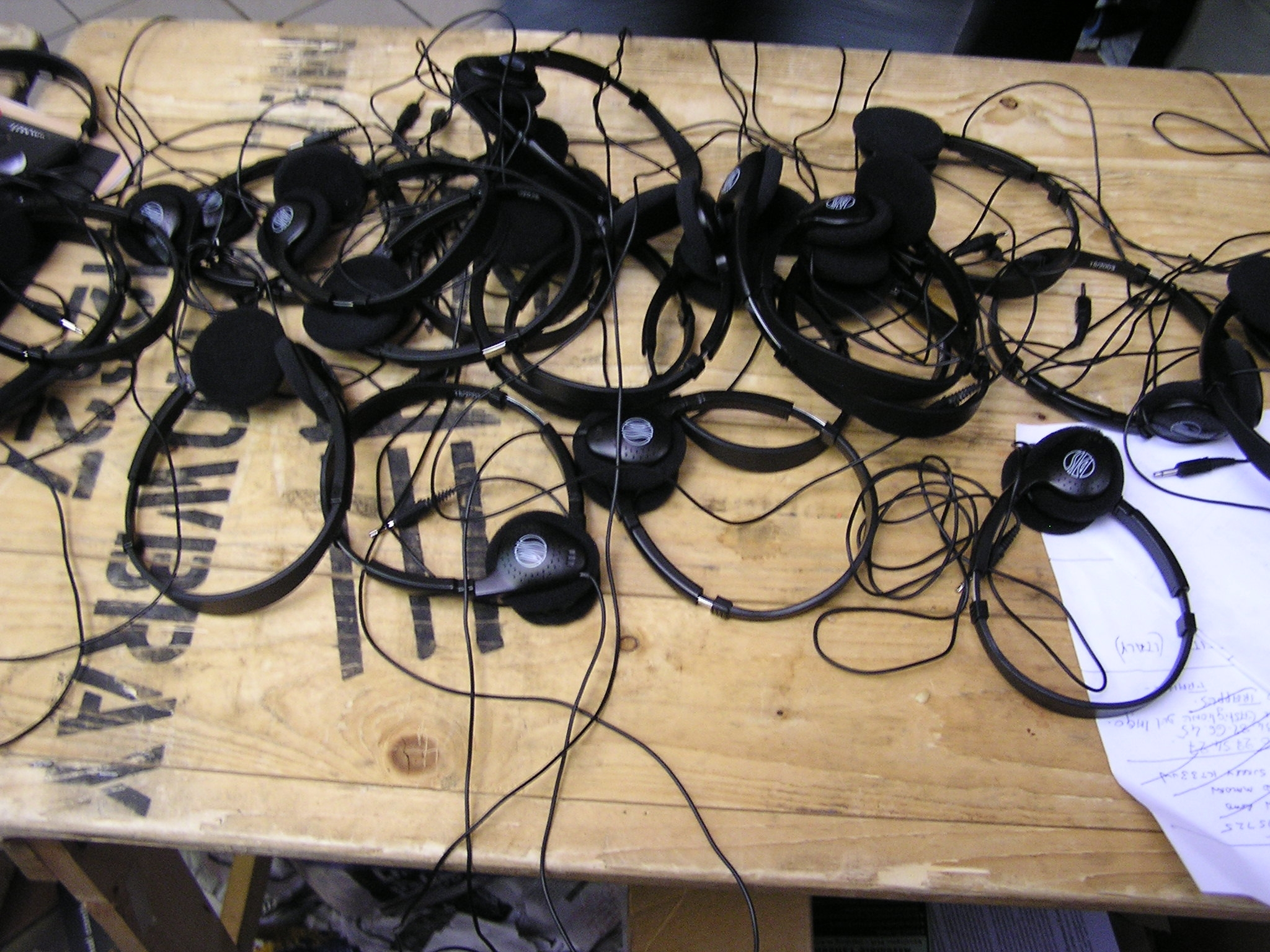 headsets of Babels at the third ESF taken by JK the unwise